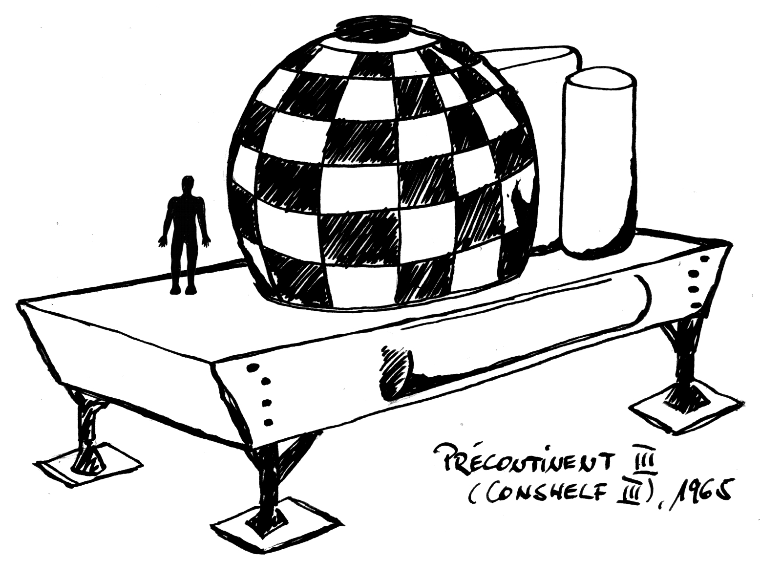 The image shows Jacques Cousteau's Conshelf III Underwater Habitat